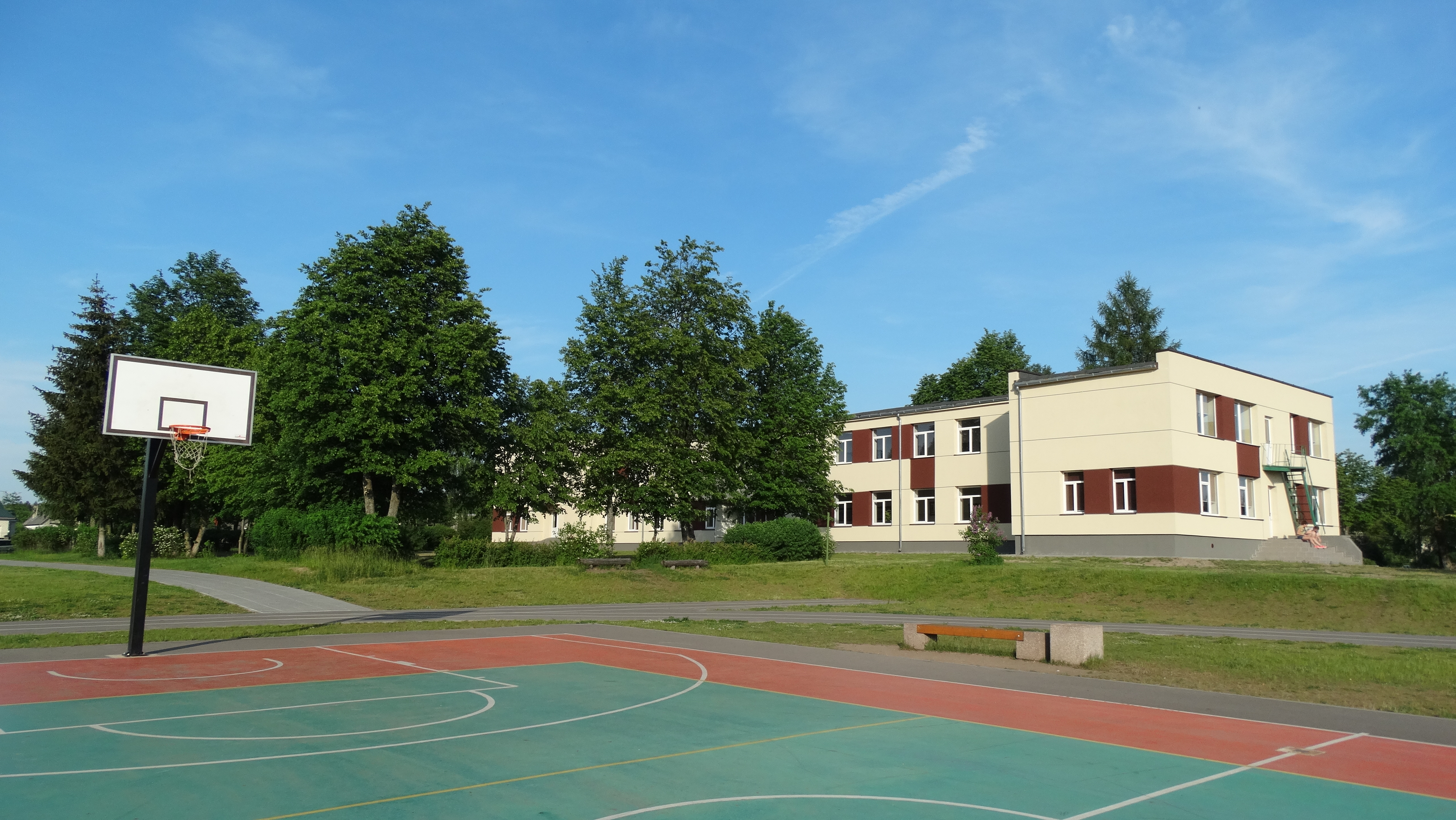 Juliusz Słowacki Gymnasium, Bezdonys, Vilnius District, Lithuania